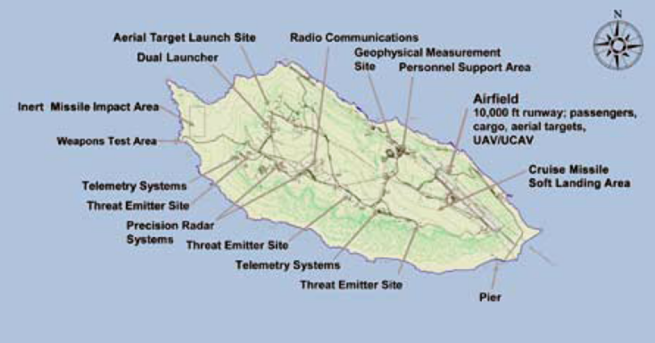 Map showing the military facilities on San Nicolas Island, California (USA).